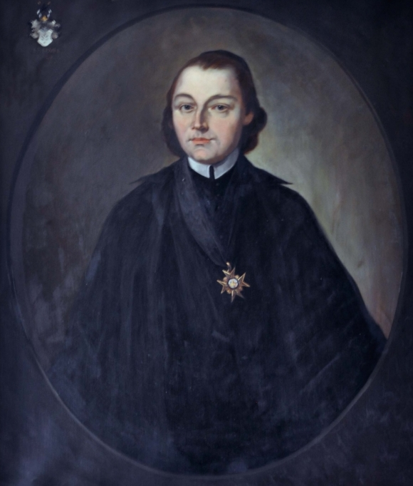 Joseph von Hettersdorf, last provost of Kloster Blankenau from 1776 to 1802